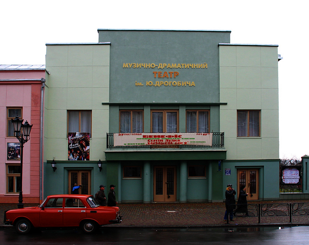 Music and drama theatre, en: Drohobych, Drohobytsch, Ukraine author: Elke Wetzig (elya) date: November 2005